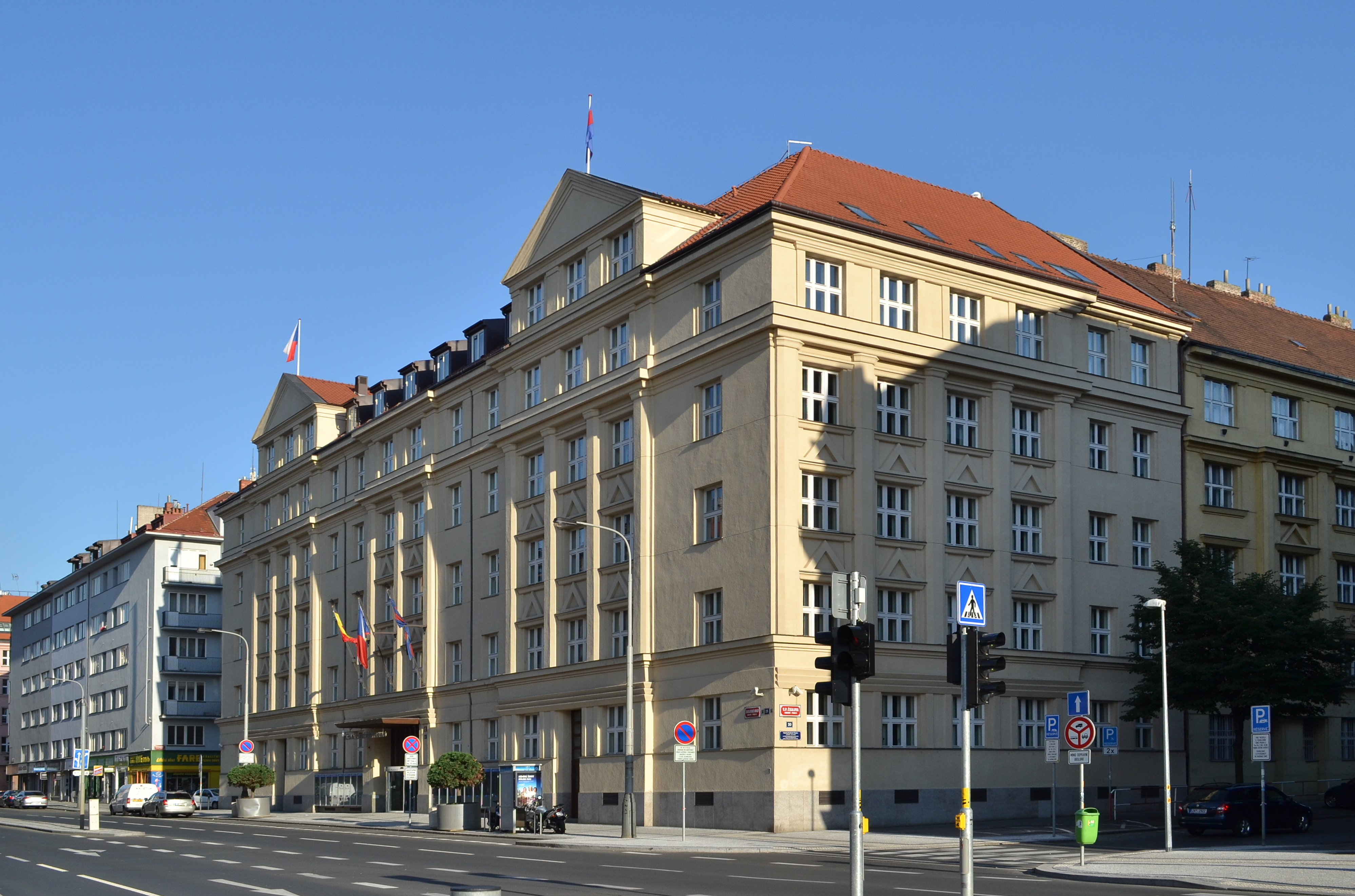 Municipal district office of Prague 6, Československé armády 23, Prague, Czech Republic. Architect Alois Krofta.